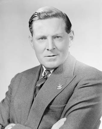 A 1961 black and white portrait of David Fairbairn, MP for Farrer